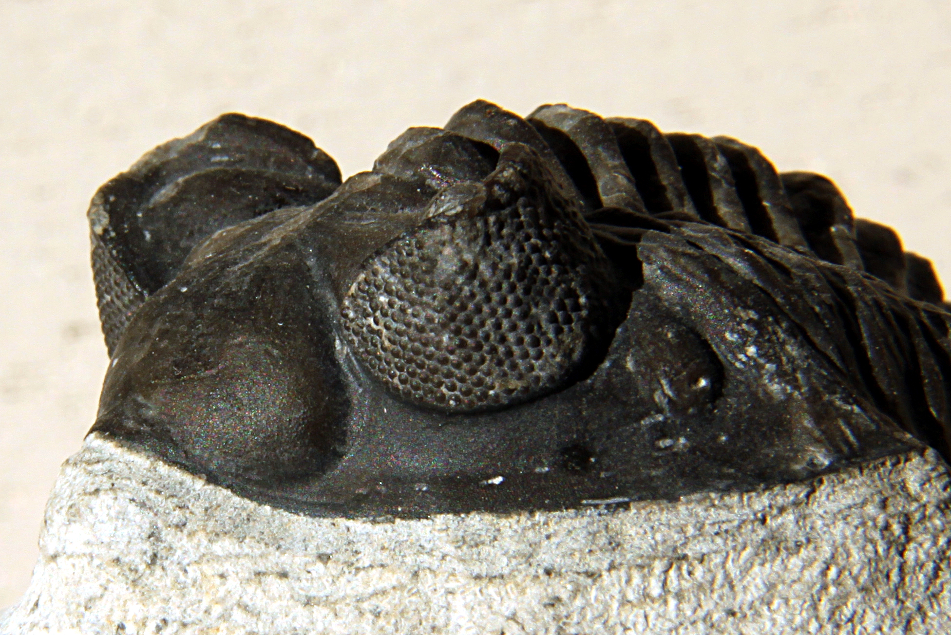 Cephalon of Coltraneia oufatenensis, collected near Oufaten, Marokko, from the Middle Devonian, total length of the specimen 69mm